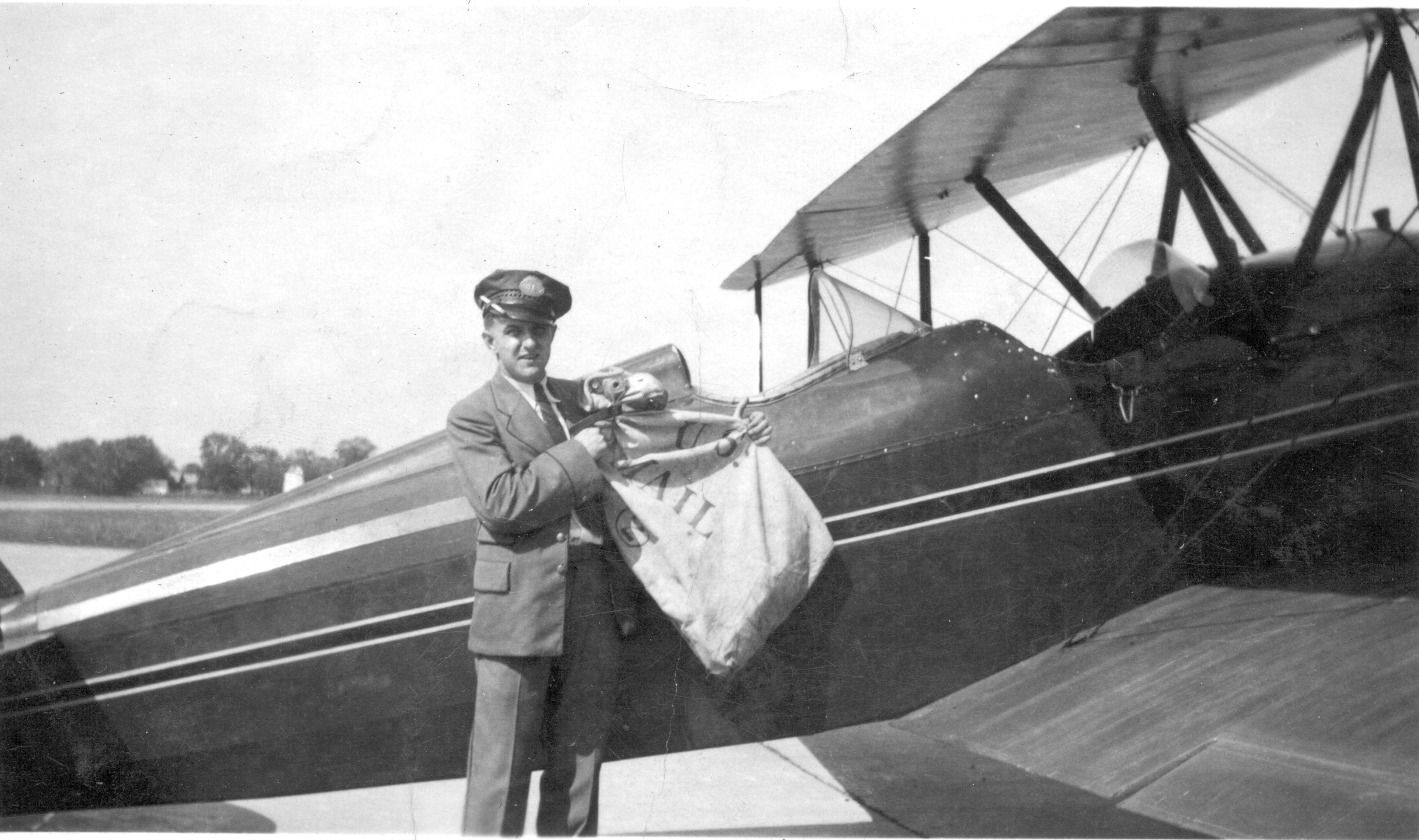 Marion Smykowski, Loading airmail, late 1930s, in Detroit. Marion's father, Leo, can be seen at his store in a photo in the History of Detroit article. This is from my personal collection; Marion was my grandfather, he later became postal superintendent of Inkster, Michigan.